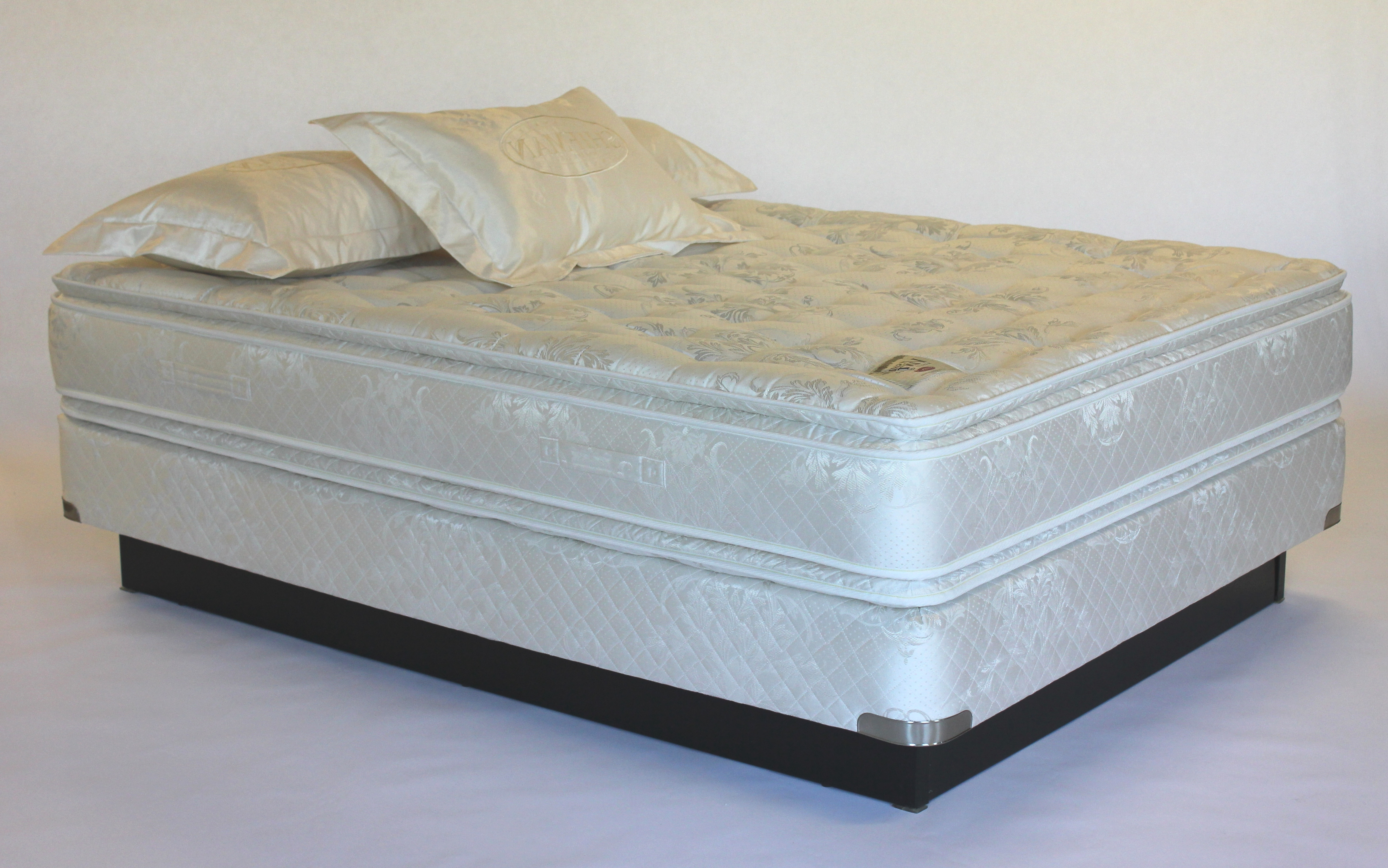 Shifman Mattress and Boxspring set. Shifman Vintage Soft Cloud 2012